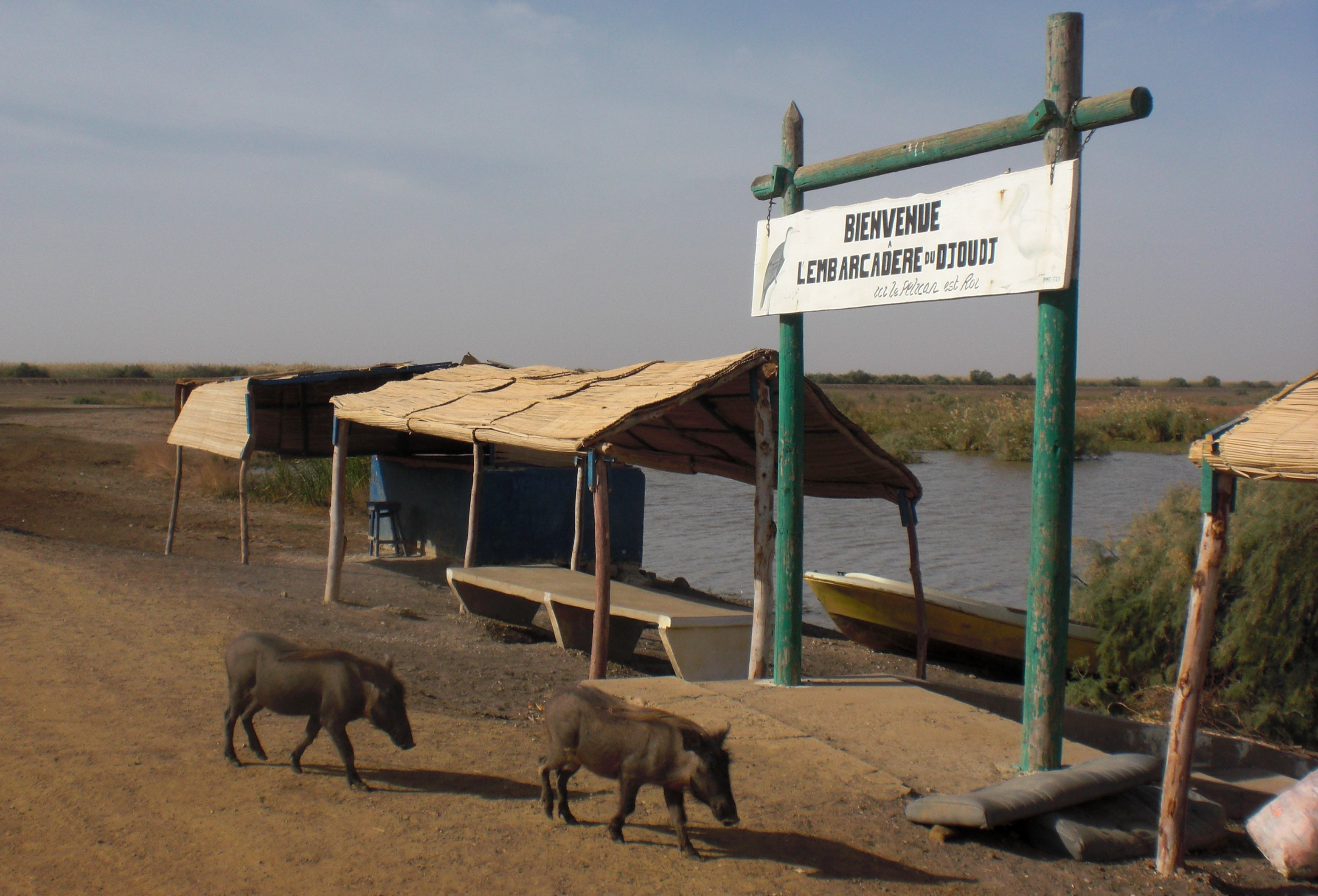 Pier of the National Parc du Djoudj (Senegal) & two warthogs